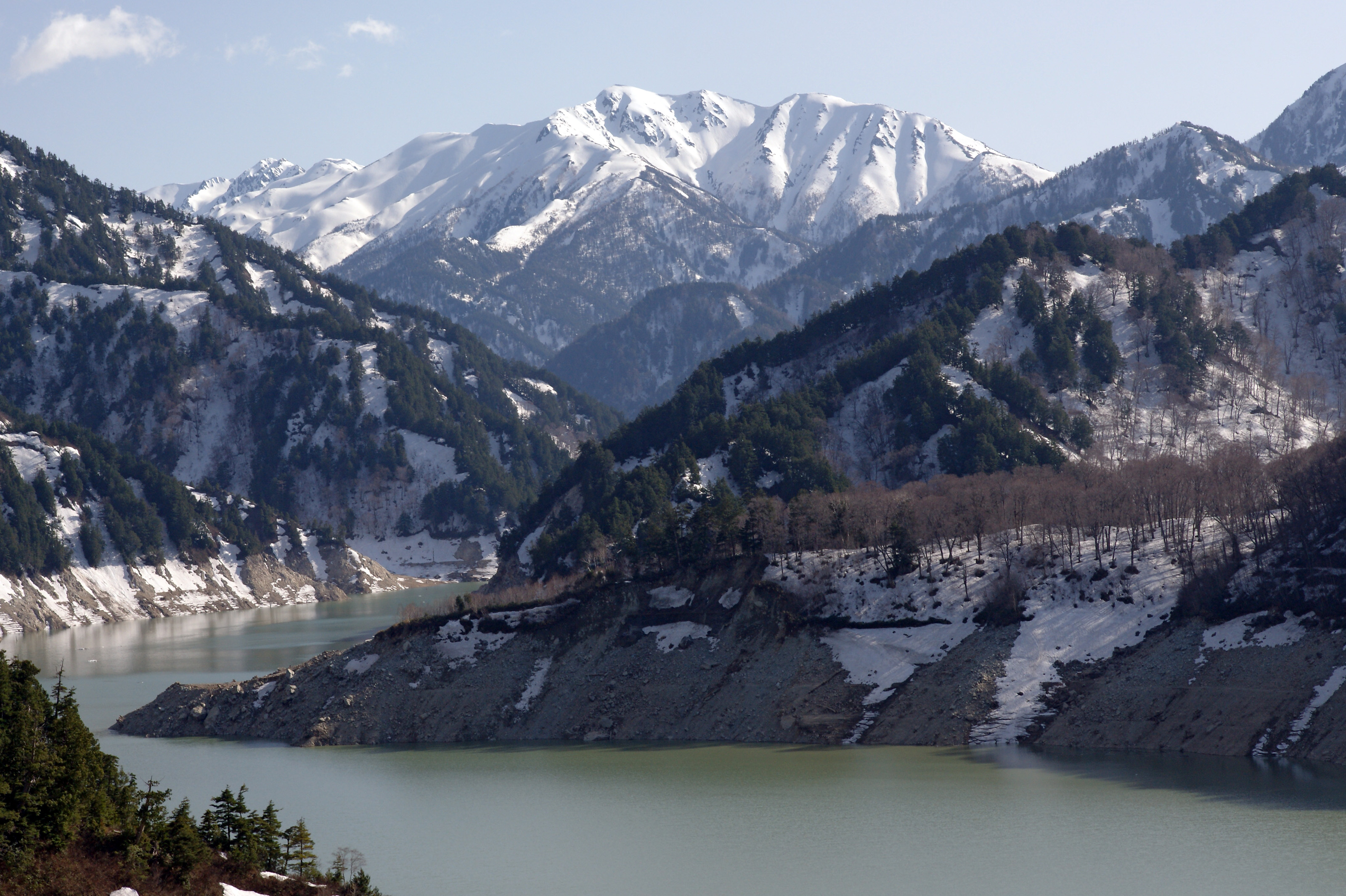 Mt. Akaushi-Dake peaks(2864m) from Lake Kurobe(1455m) in Toyama prefecture, Japan